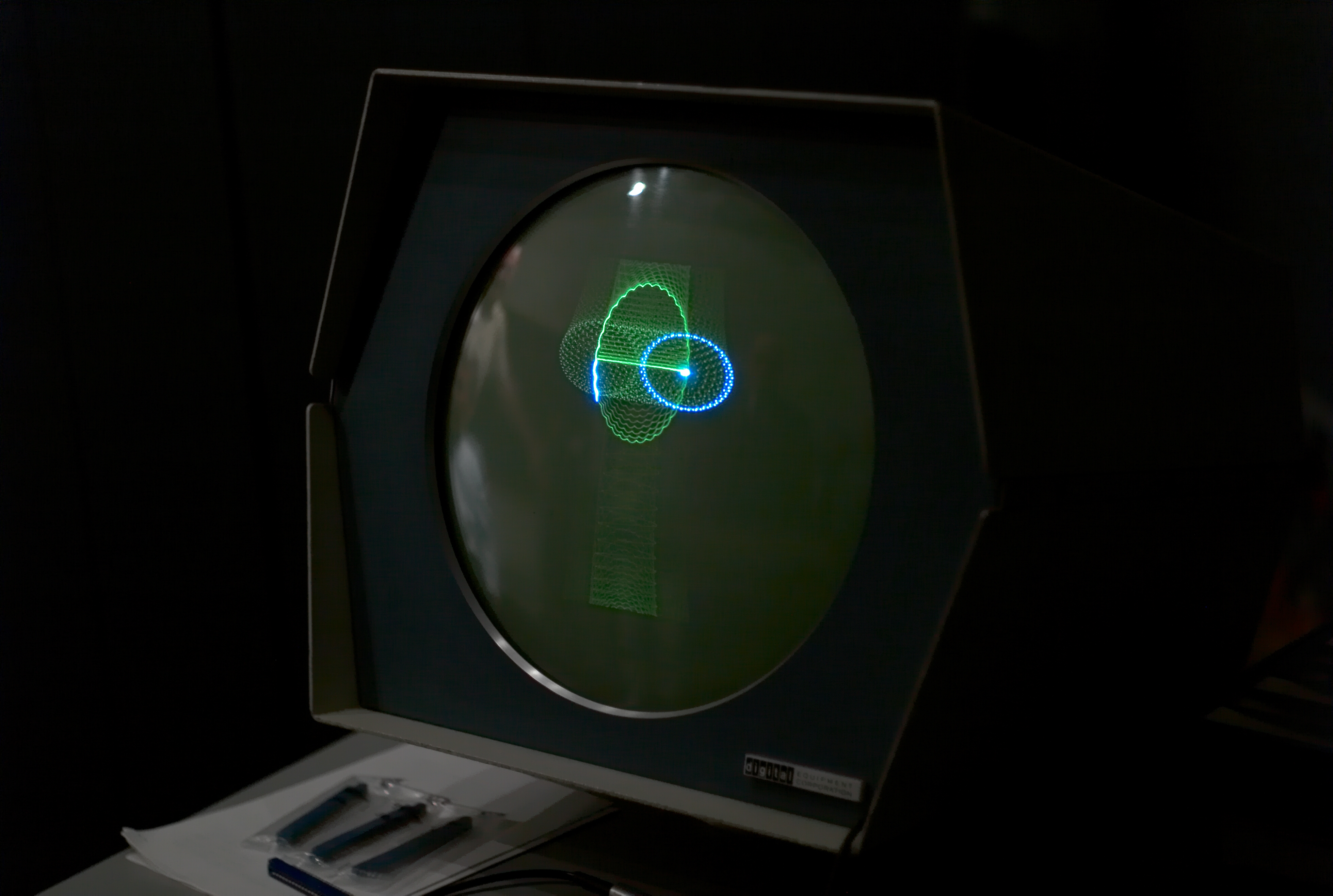 Marvin Minsky's "Three Position Display" running on the Computer History Museum's PDP-1, Mountain View, California, 2007